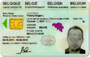 National identity card of Belgium (french)